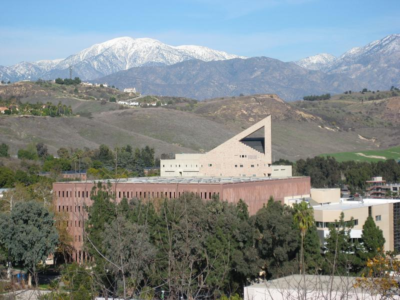 Cal Poly Pomona with snow-covered mountains in background